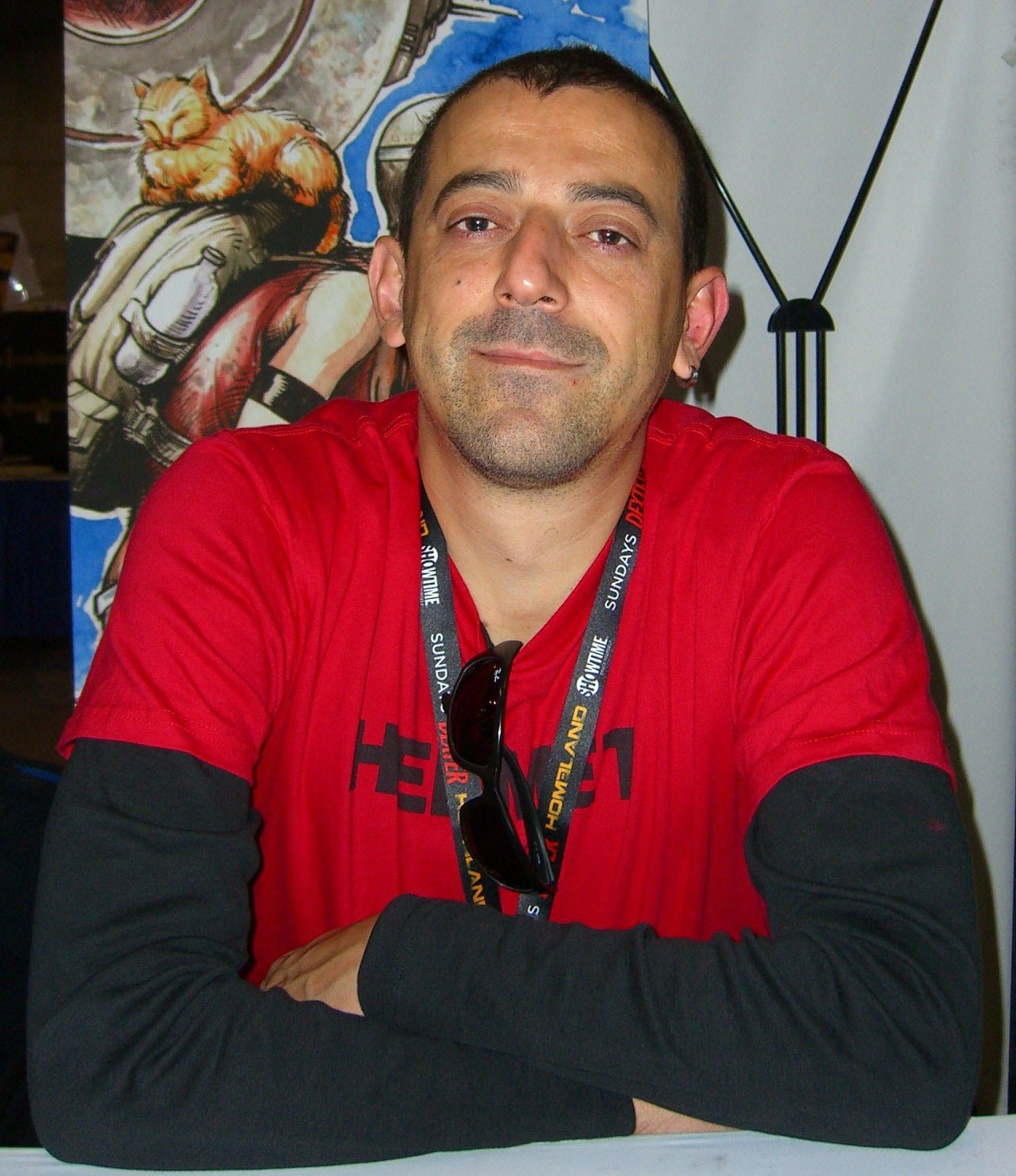 Comics creator Yıldıray Çınar during an October 16, 2011 appearance at the New York Comic Con in Manhattan. This photo was created by Luigi Novi. It is not in the public domain, and use of this file outside of the licensing terms is a copyright violation.